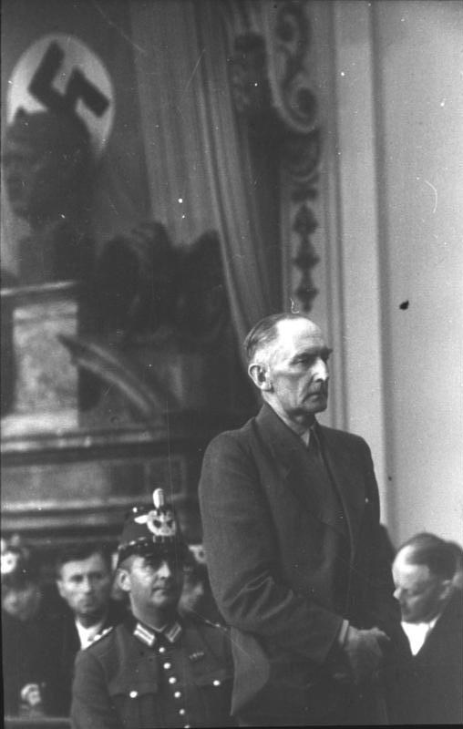 Generalfeldmarschall Erwin von Witzleben, on trial for conspiracy against Hitler